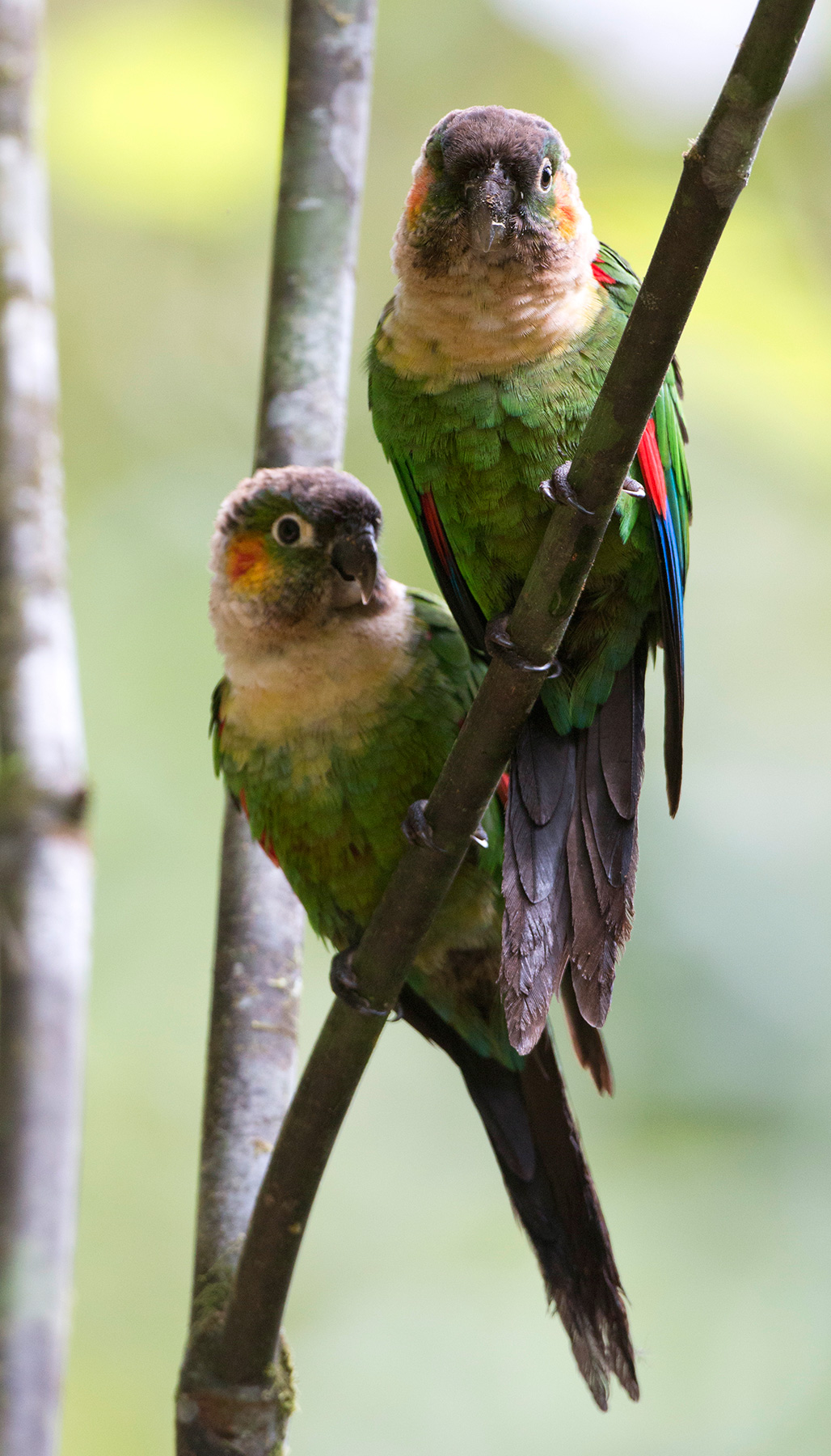 White-breasted Parakeets, Podocarpus NP, Ecuador